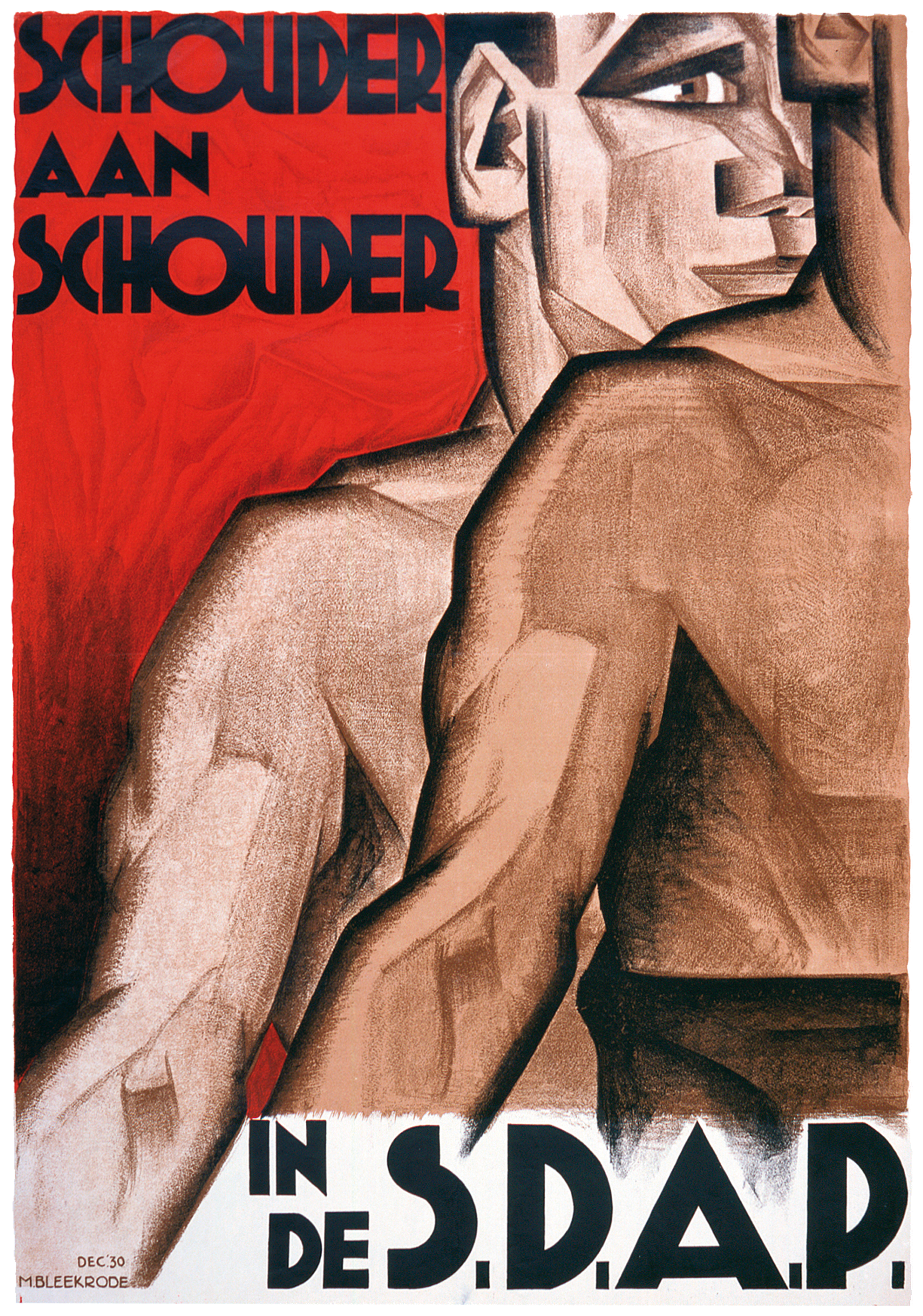 "sholder to sholder in the SDAP"